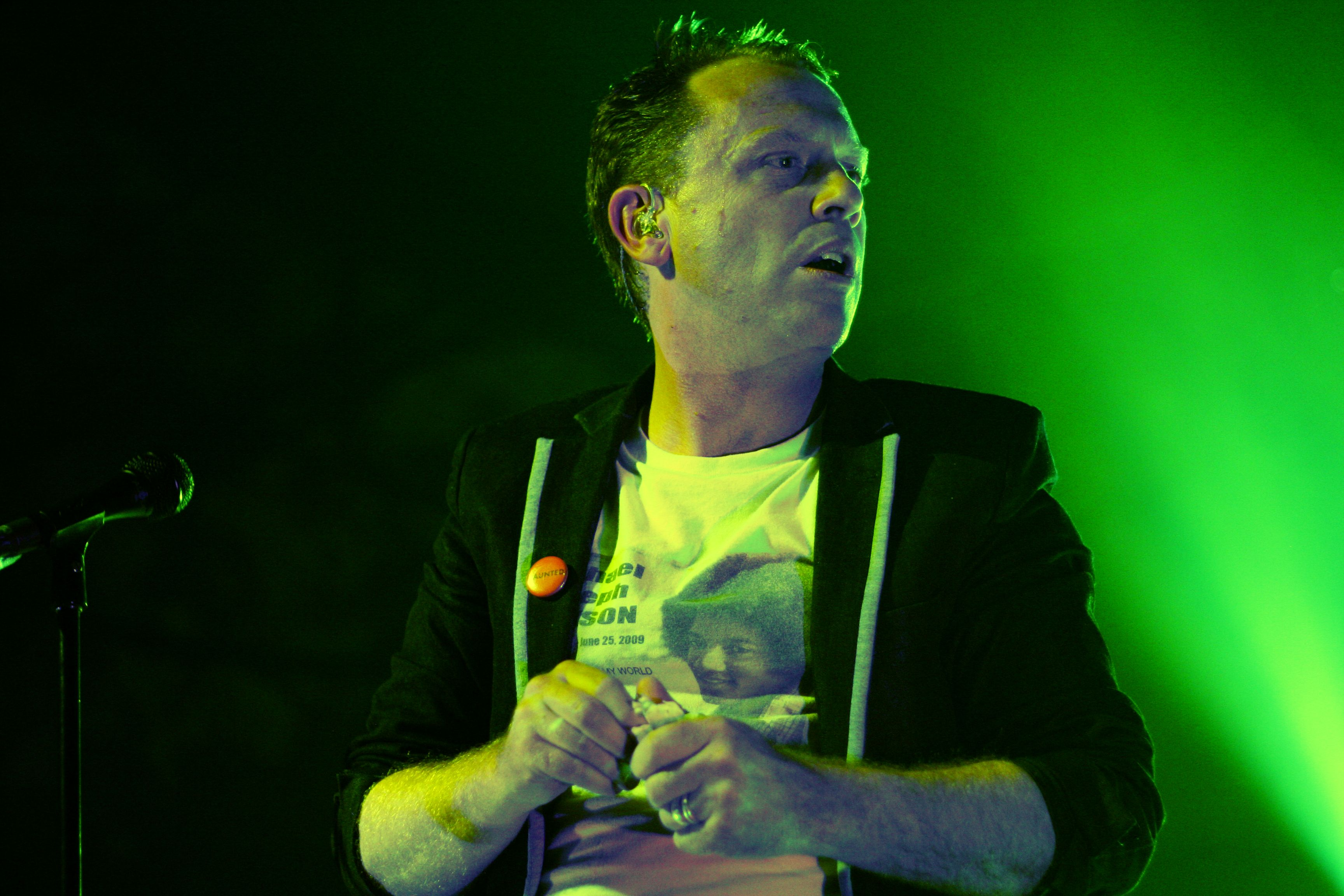 Torq Campbell performing live in Milwaukee during the Fall 2010 Stars tour. Photo by Kendall Burke.